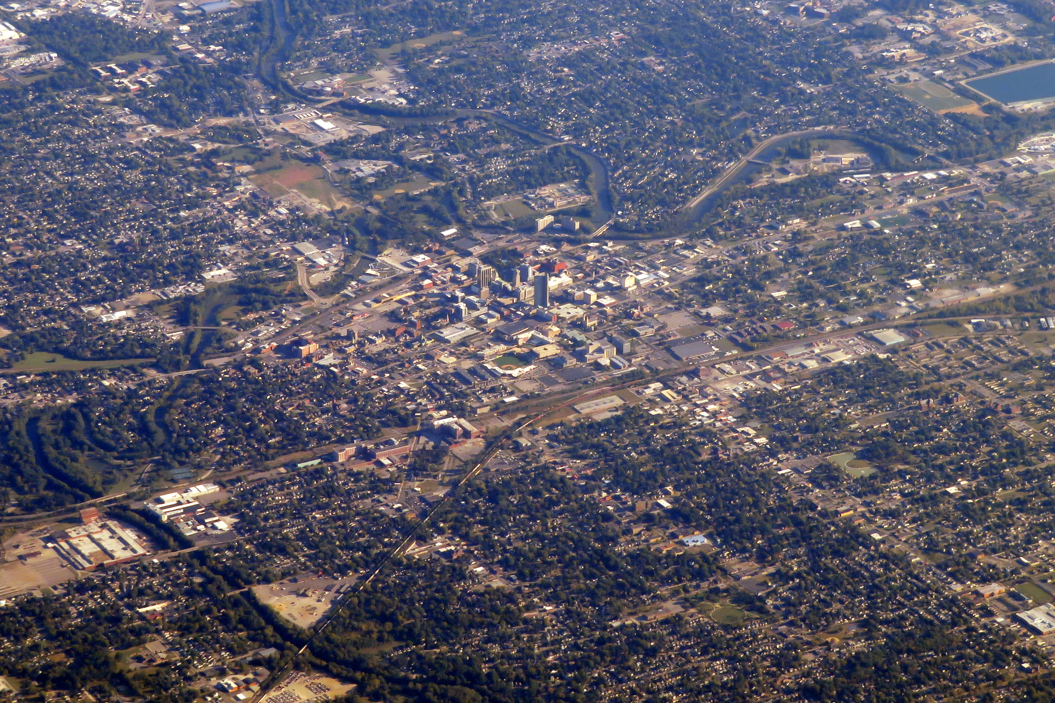 Aerial view of Fort Wayne in September 2019